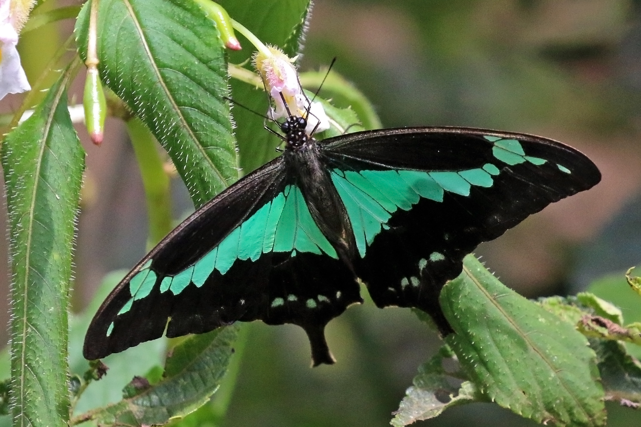 Green-banded swallowtail (Papilio phorcas ruscoei), Kakamega Forest, Kenya